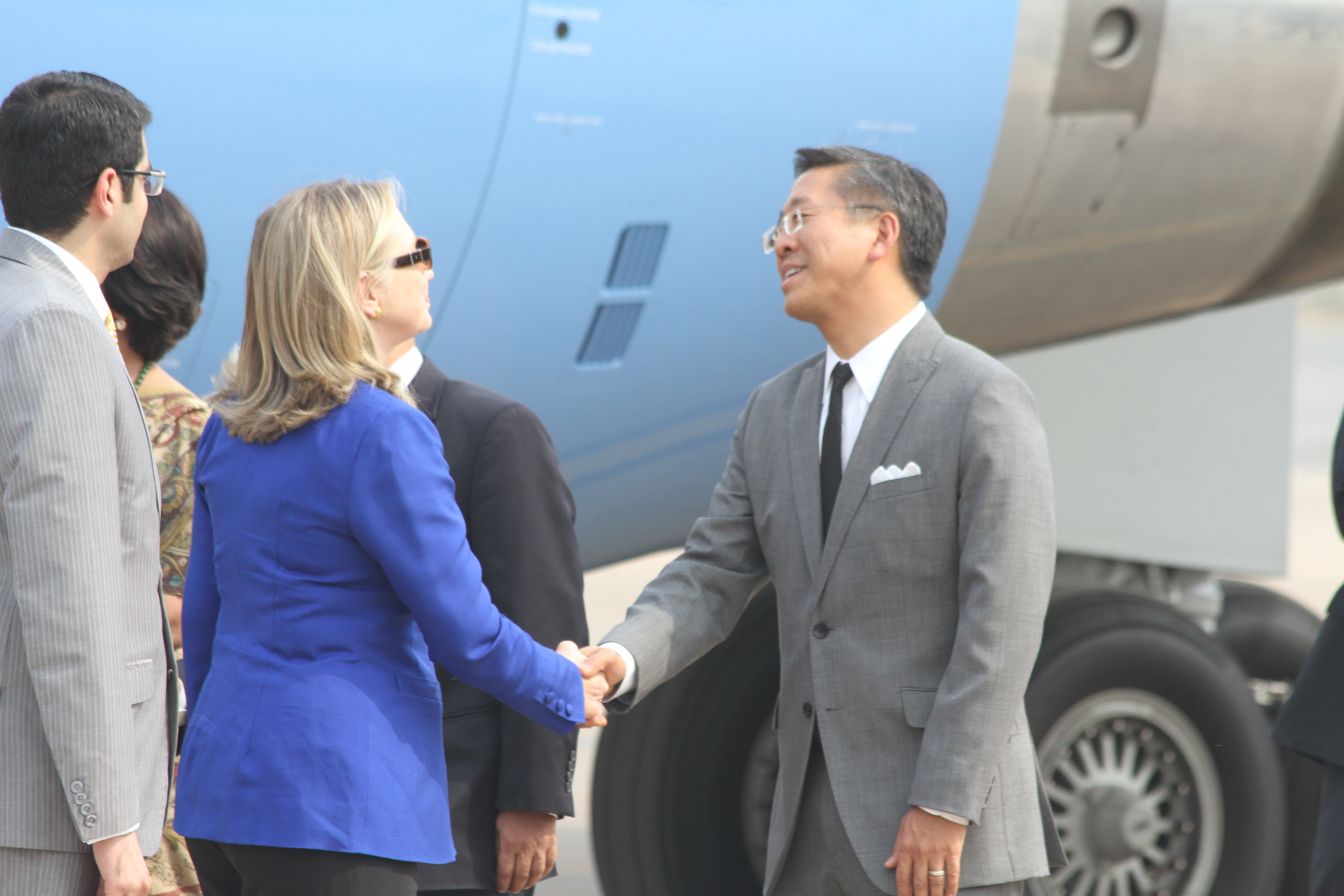 U.S. Secretary of State Hillary Rodham Clinton is greeted by U.S. Deputy Chief of Mission Don Lu upon her arrival to New Delhi, India, on May 7, 2012. [State Department photo/ Public Domain]